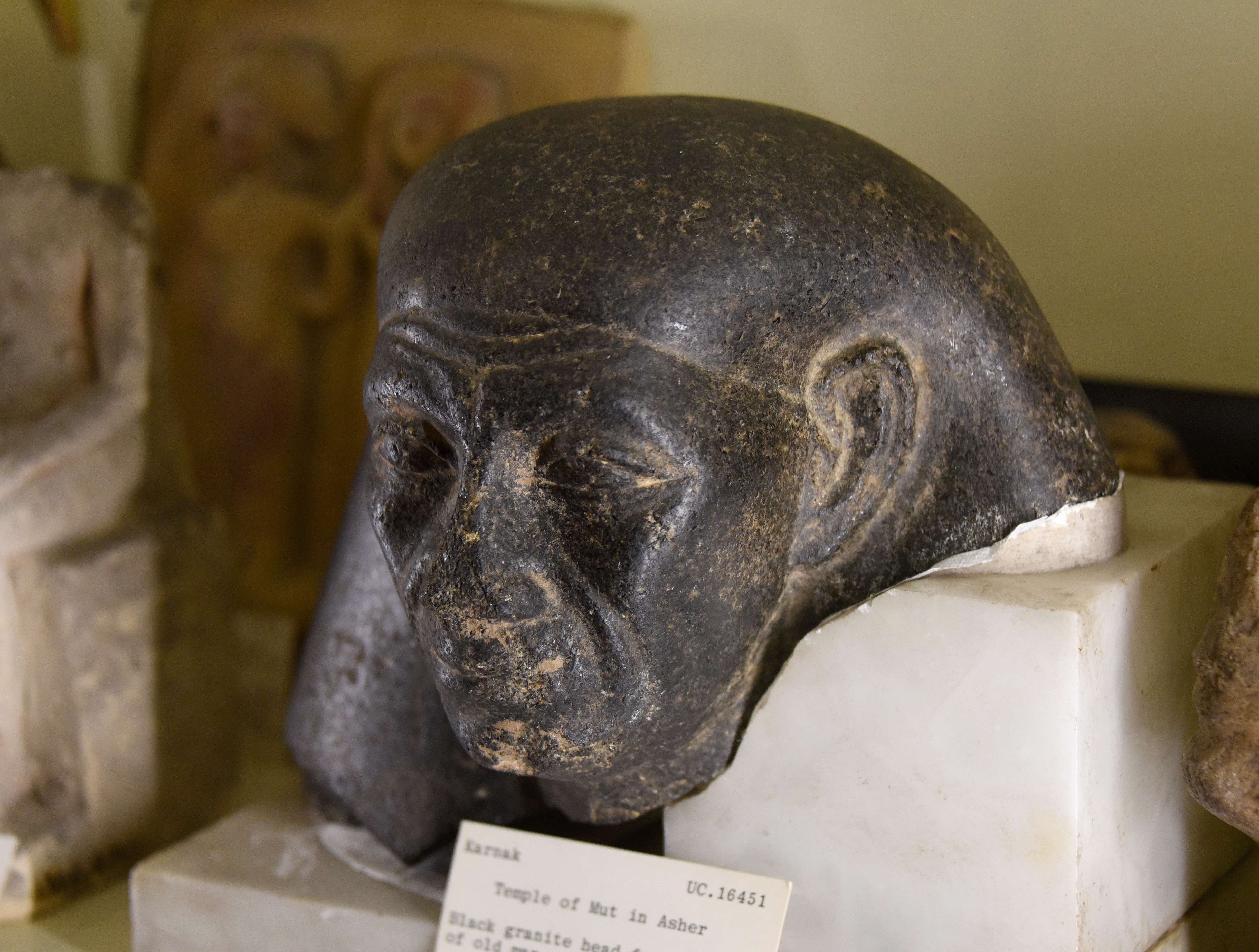 Head from a statue of an old man, probably Mentuemhat. Black granite. 25th Dynasty. From Thebes (Karnak), Egypt. The Petrie Museum of Egyptian Archaeology, London. With thanks to the Petrie Museum of Egyptian Archaeology, UCL.